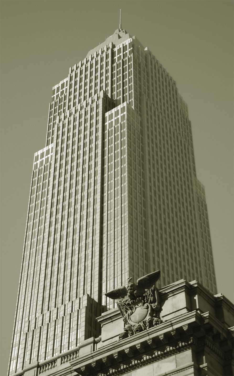 Key Tower in downtown Cleveland, Ohio